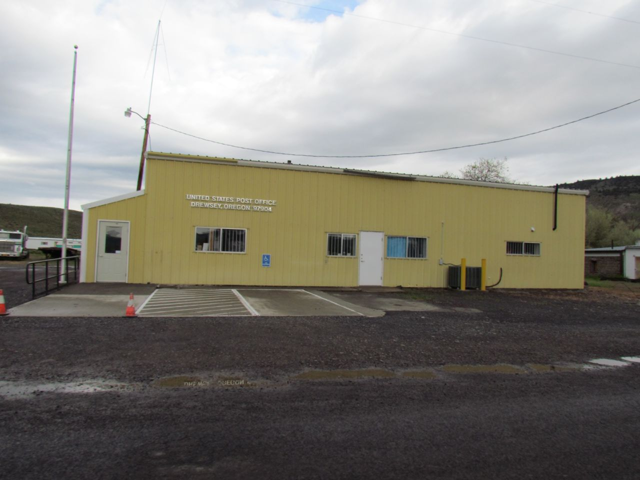 Drewsey Or